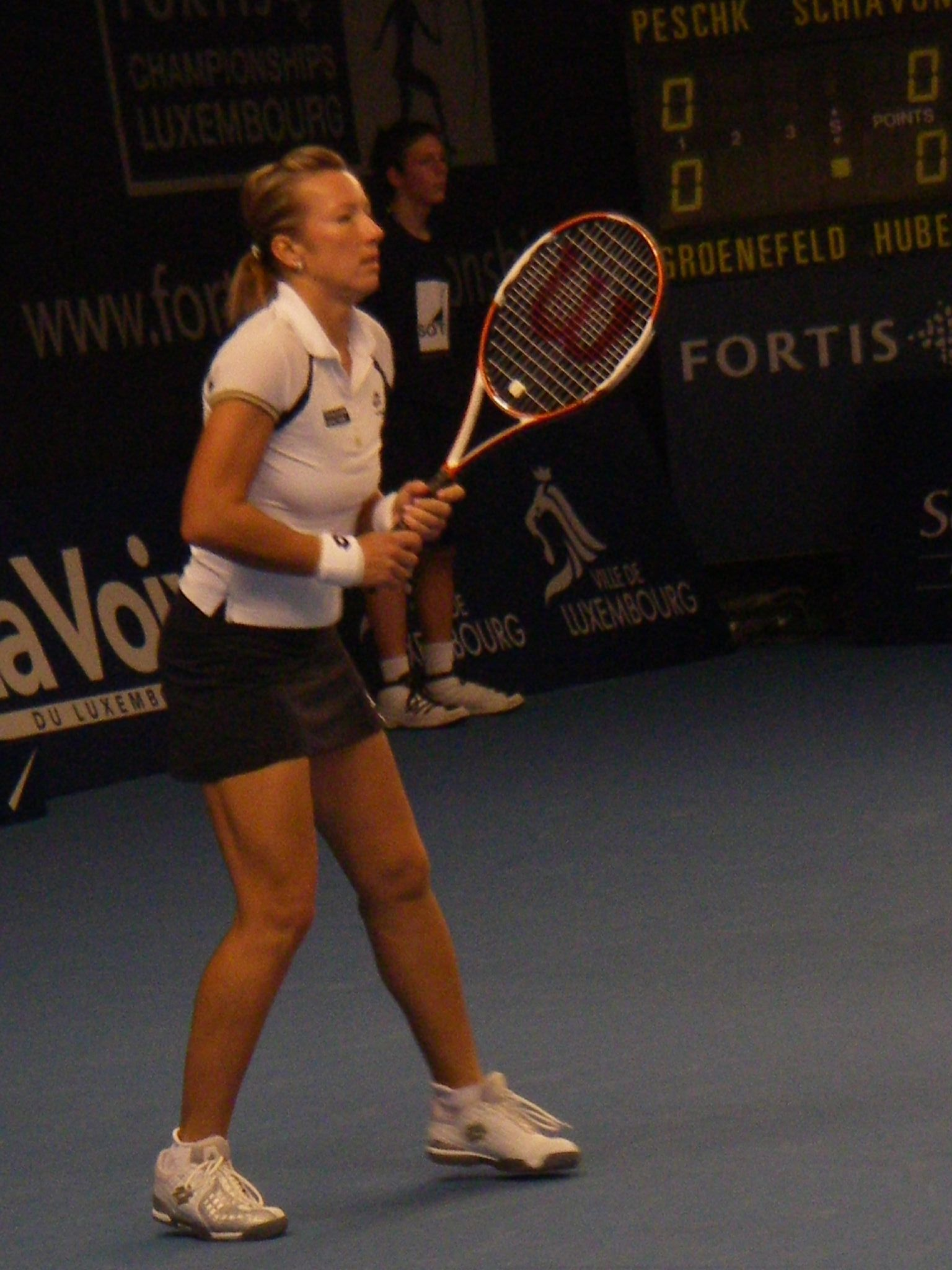 Květa Peschke at the 2006 Fortis Championships Luxembourg